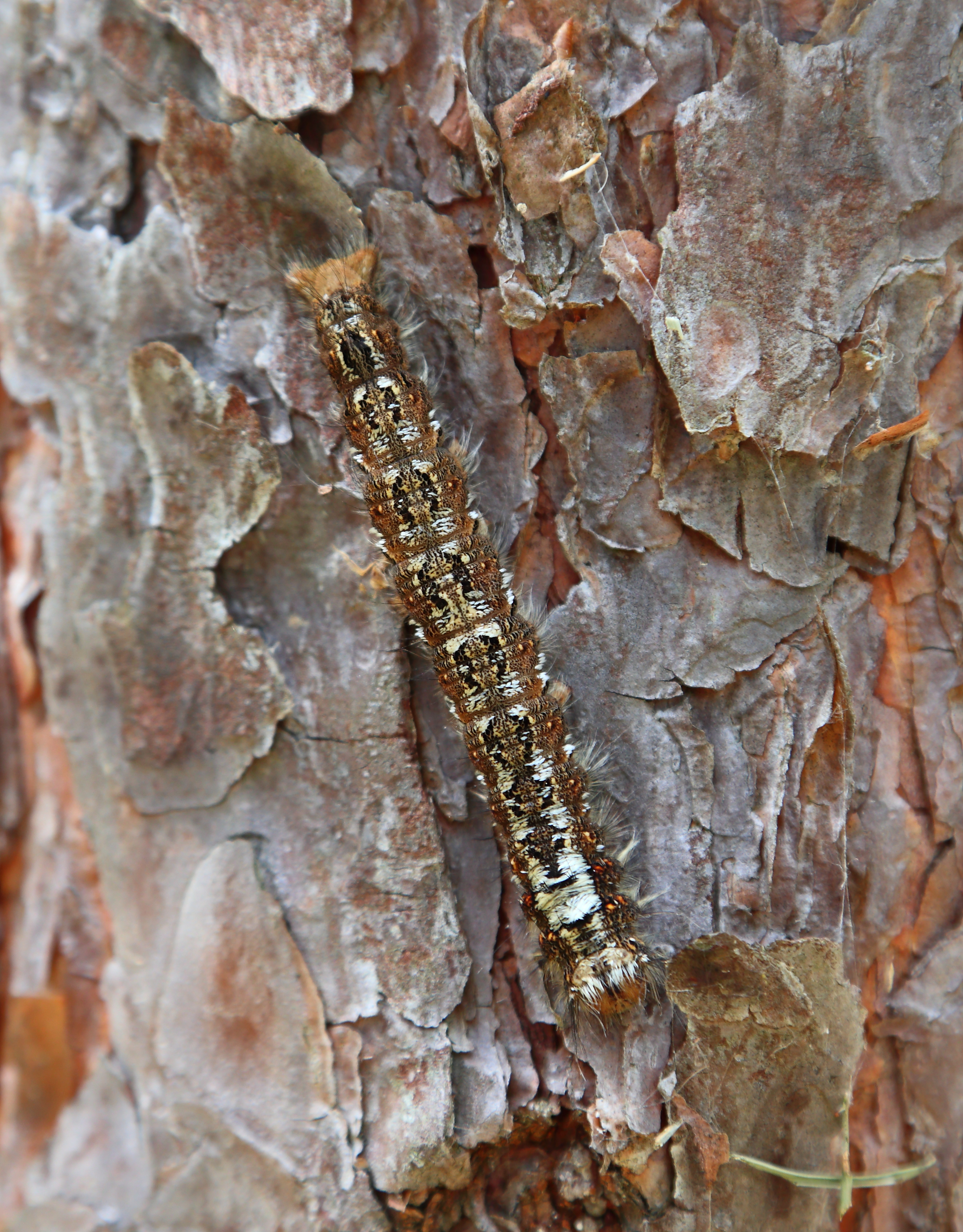 Pine Moth (Dendrolimus pini) caterpillar in the Lieberose Heath (Lieberoser Heide) in Brandenburg, Germany.